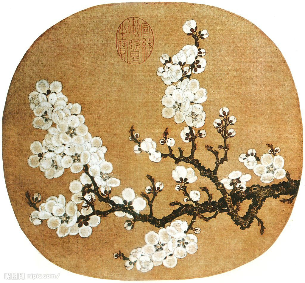 Zhao Chang. A Branch of Apricot. Palace Museum, Beijing.